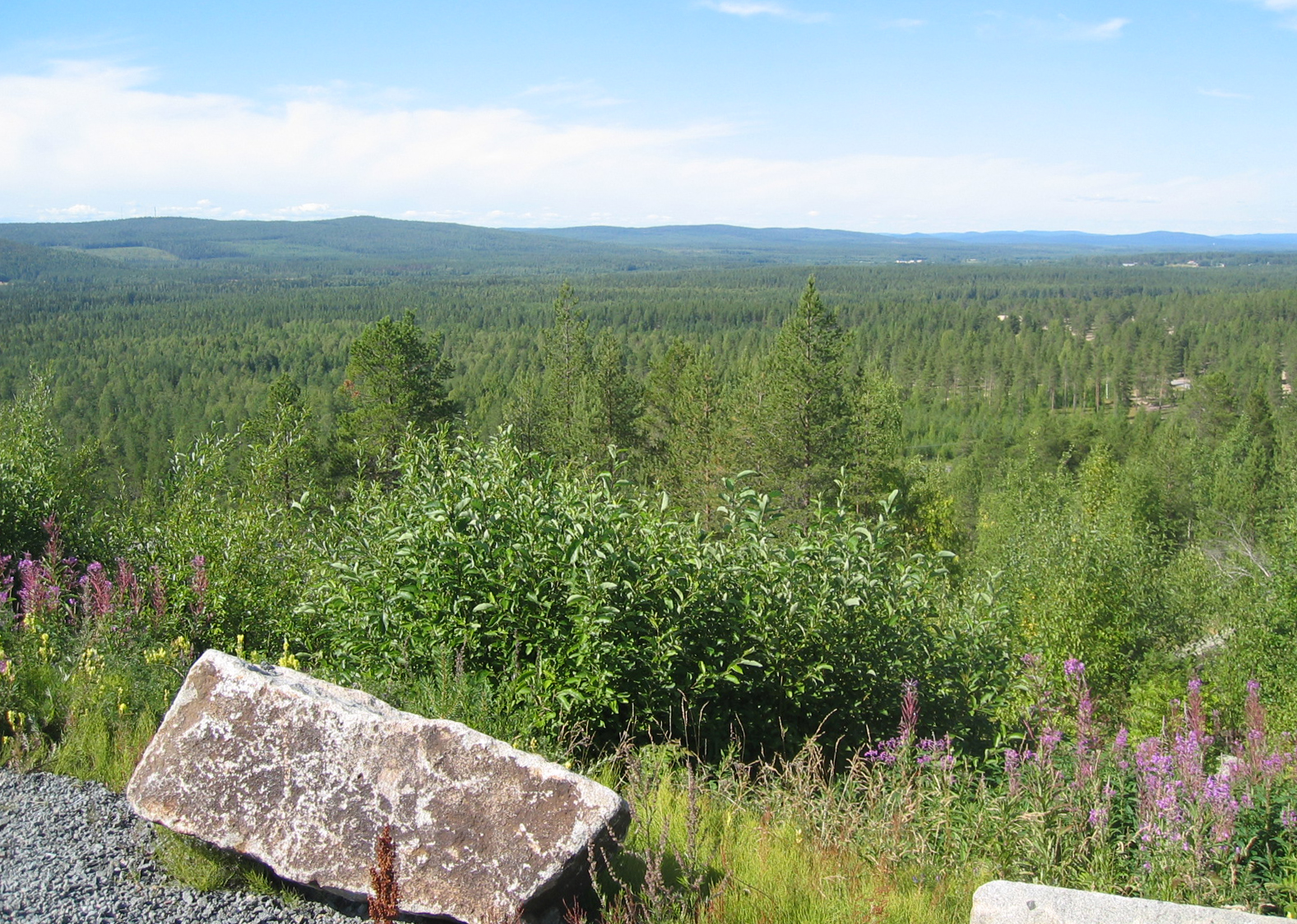 The view if looking west from Rödberget fort, part of Boden Fortress.